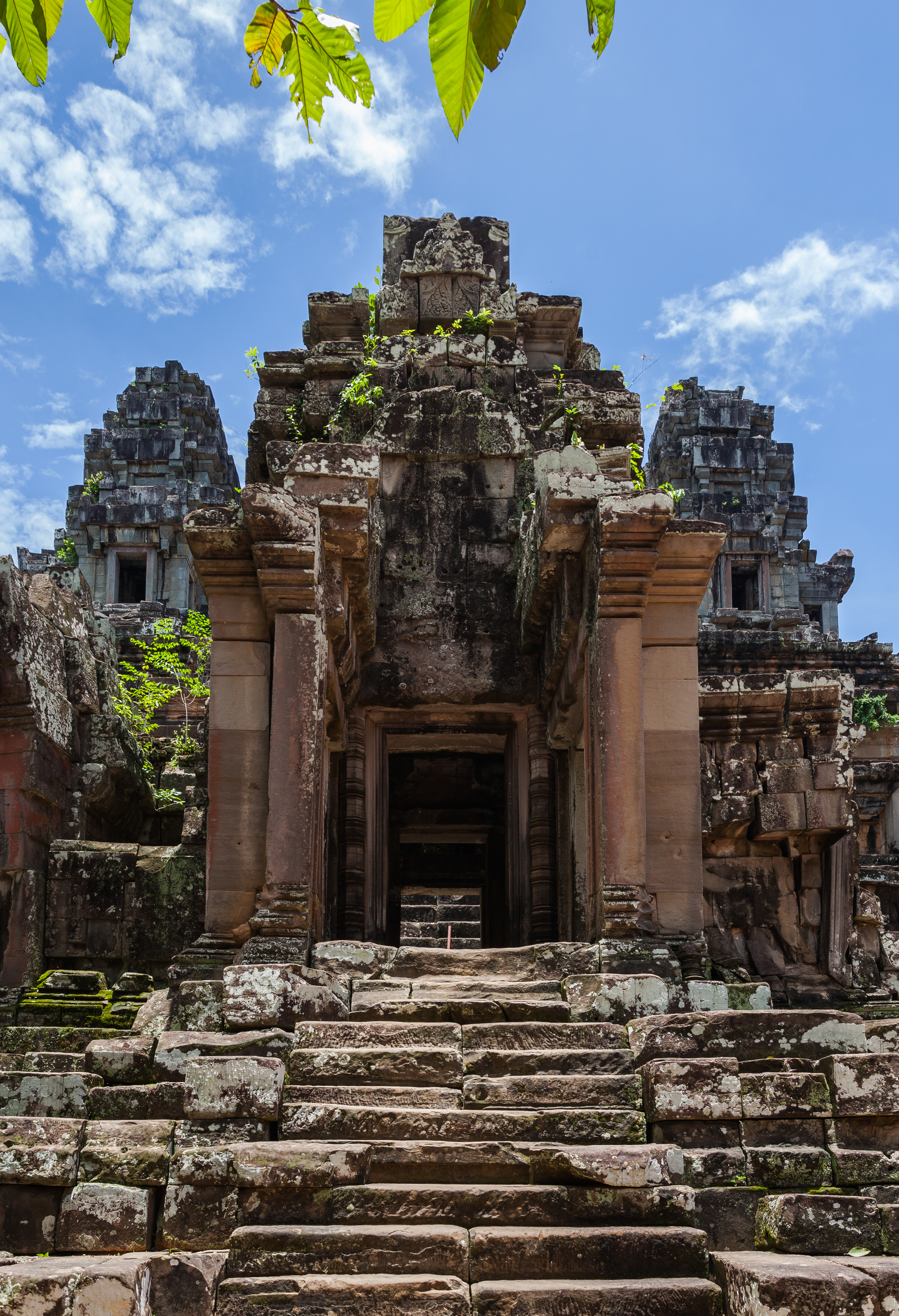 Ta Keo, Angkor, Cambodia